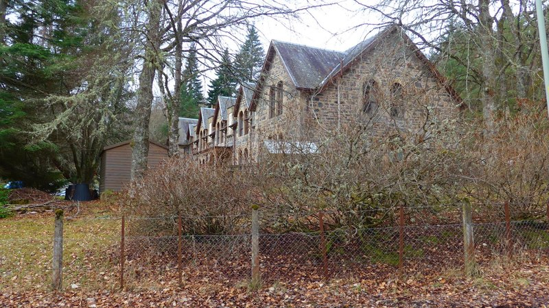 St Vincents Hospital